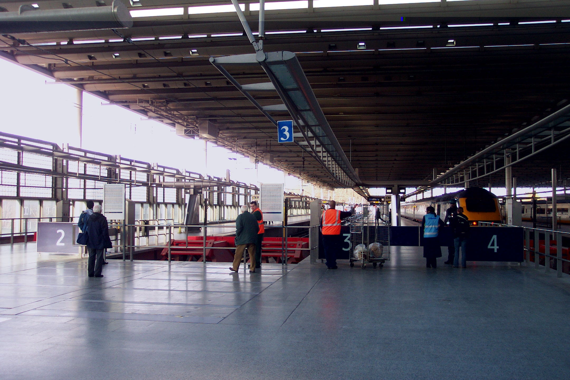 The platforms used by East Midlands Trains at St Pancras railway station, under the flat roof of the newly extended station. For more information see the Wikipedia article St Pancras railway station.